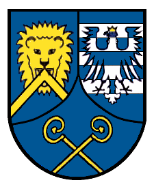 Coat of Arms of Münsterschwarzach